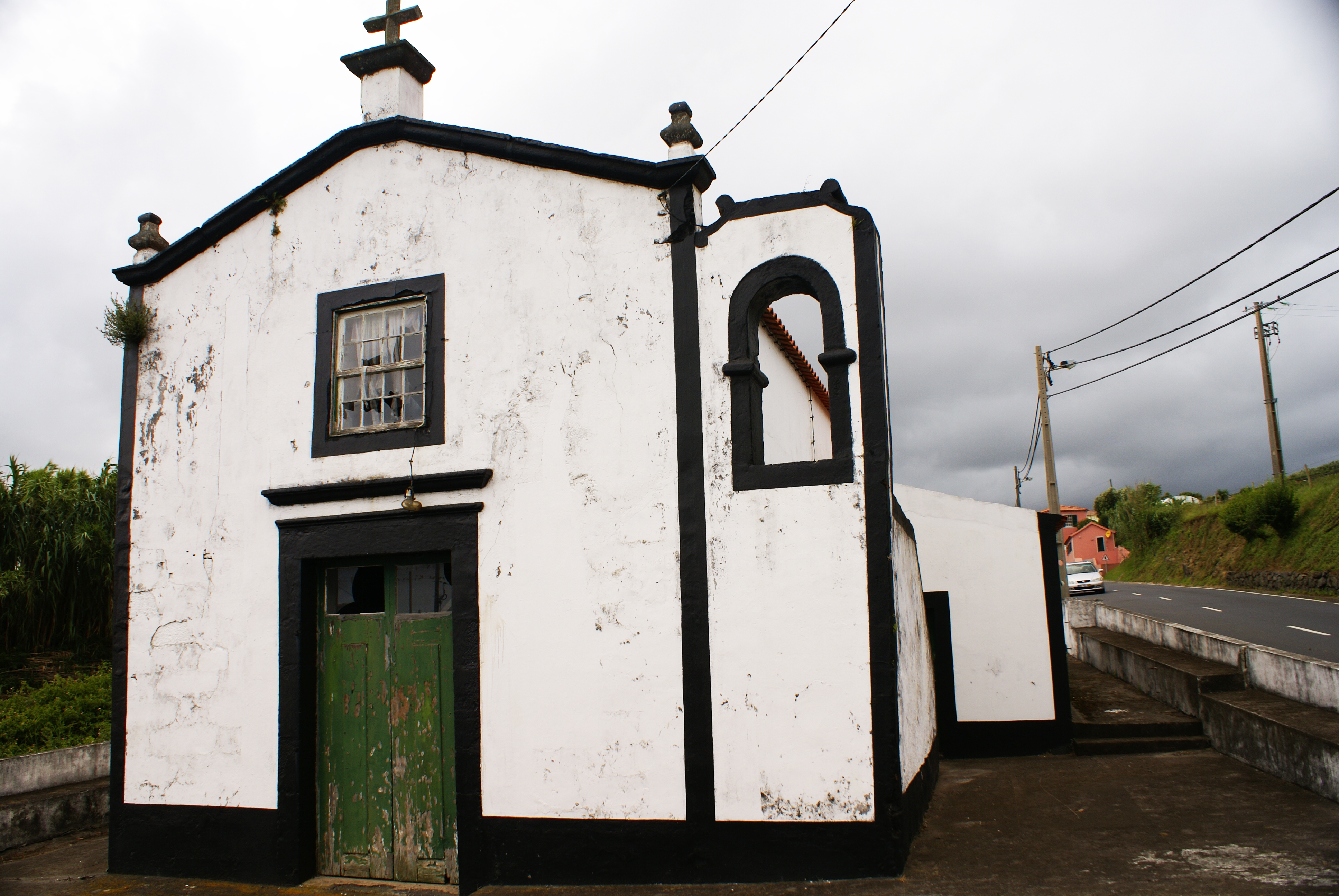 The abandoned Chapel of Santa Bárbara, Angustias, Horta, Faial (Azores), Portugal